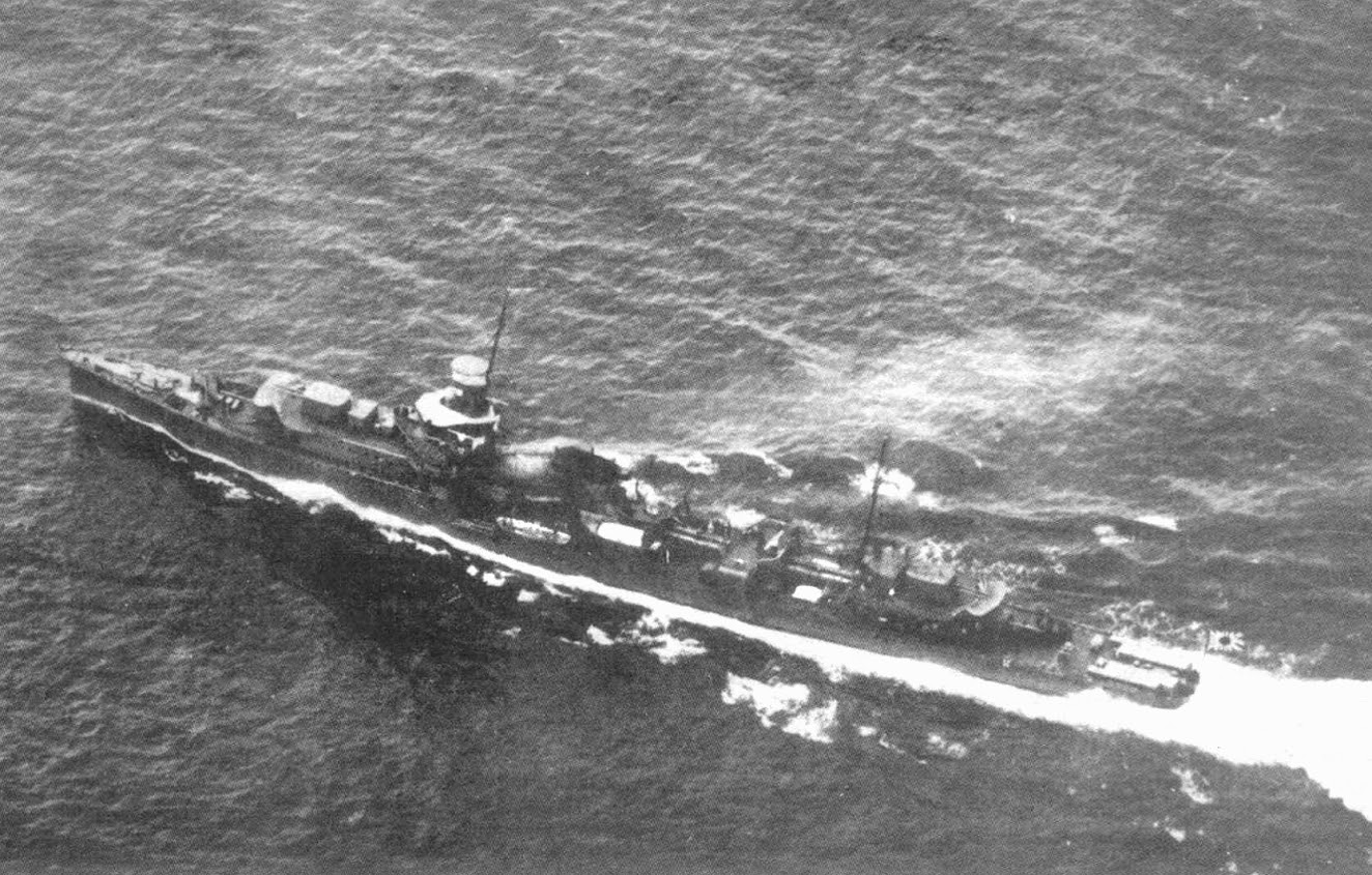 Japanese light cruiser Yubari on trials.